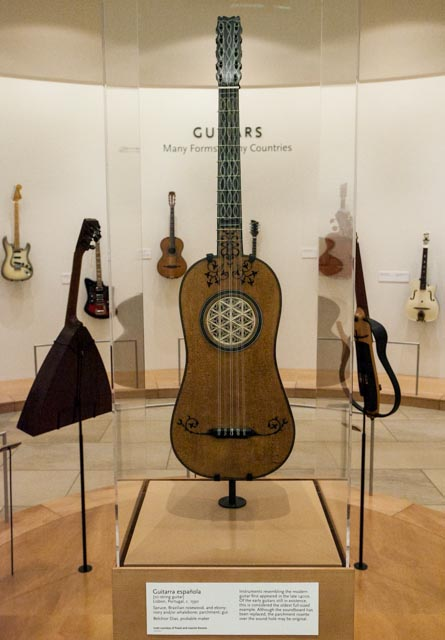 guitarra española (c.1590), Belchior Dias - MIM PHX Guitarra española (10-string guitar) Lisbon, Portugal, c. 1590 Spruce, Brazilian rosewood, and ebony; ivoly and/or whalebone; parchment; gut Belchior Dias, probable maker Loan courtesy of Frank and Leanne Koonce L2012.8.1.1 Instruments resembling the modern guitar first appeared in the late 1400s. Of the early guitars still in existence, this is considered the oldest full-sized example. Although the soundboard has been replaced, the parchment rosette over the sound hole may be original. I read about this place on Trip Adviser - it was the top rated attraction in Phoenix - and now we can see why! The museum is dedicated to musical instruments from around the world - the collection is fascinating, the exhibits are great and the hands-on displays were fun. We spent almost 5 hours here and still felt rushed - this place is definitely worth a detour. I know nothing about musical instruments so if you happen to know what a particular instrument is, please feel free to comment on it. I tried to include as many labels as possible. The museum is in Phoenix, AZ - we visited it in March 2014.